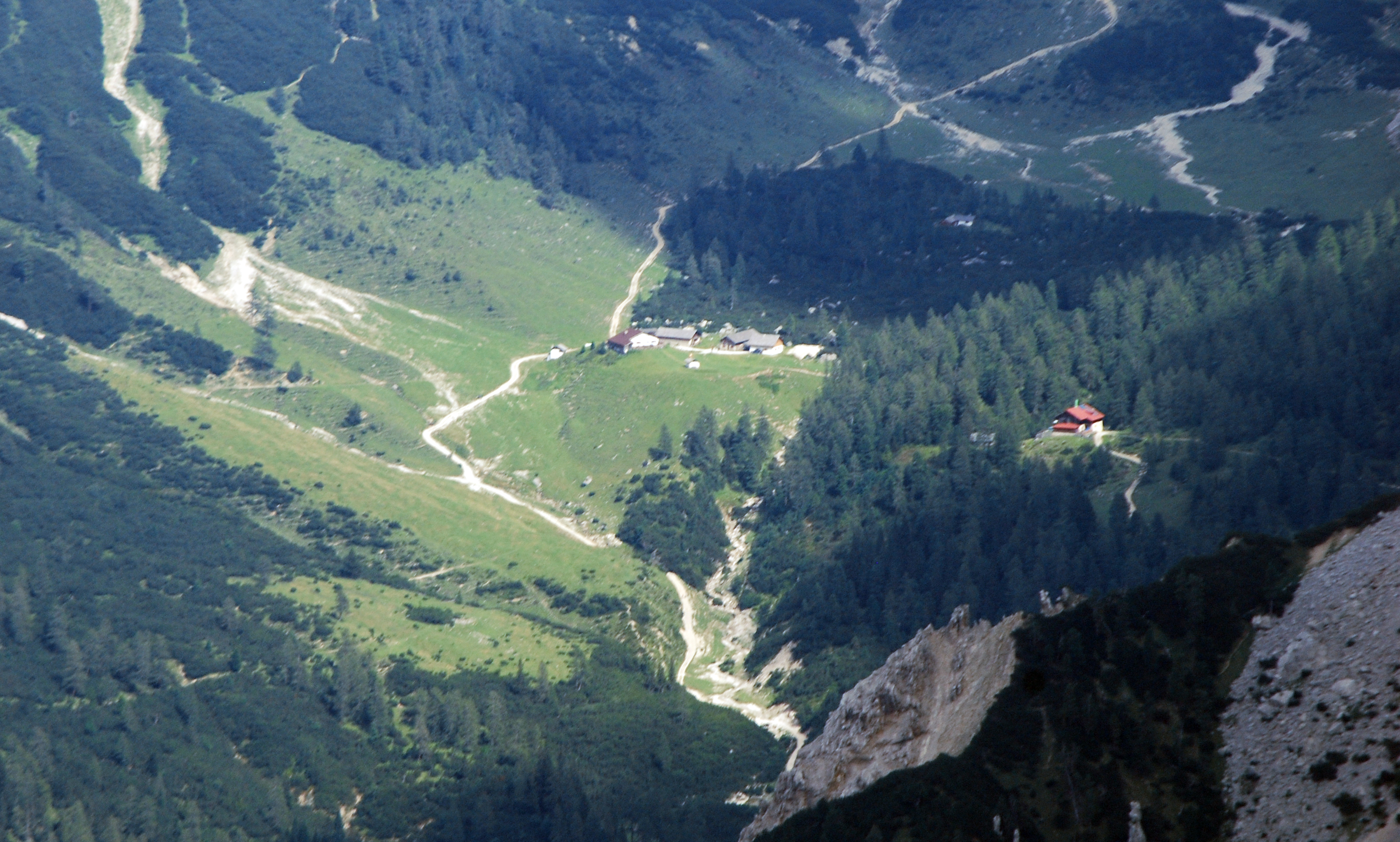 Halleranger from W (Praxmarerkarspitze)